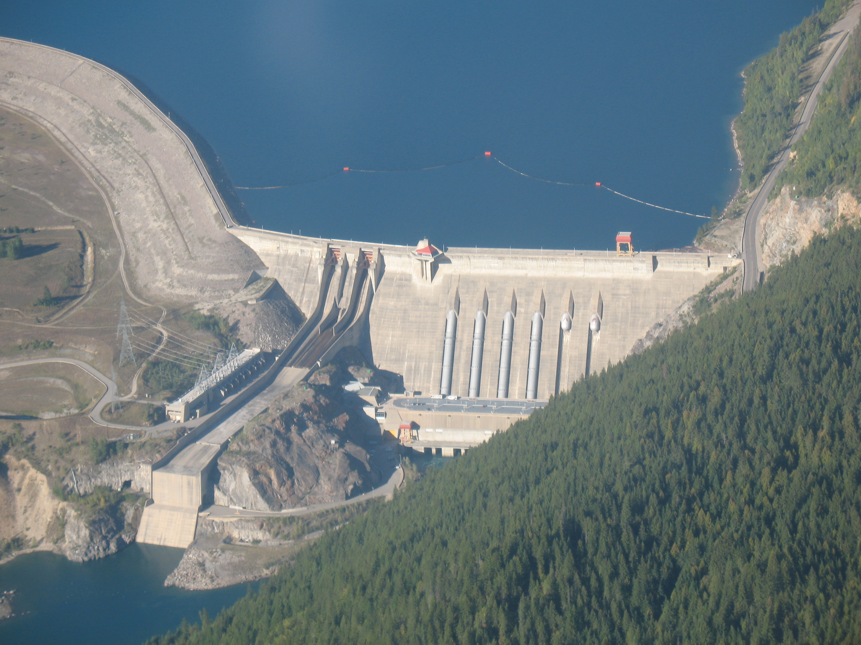 An aerial photograph of the Revelstoke Dam, taken on Friday, September 14th 2007.